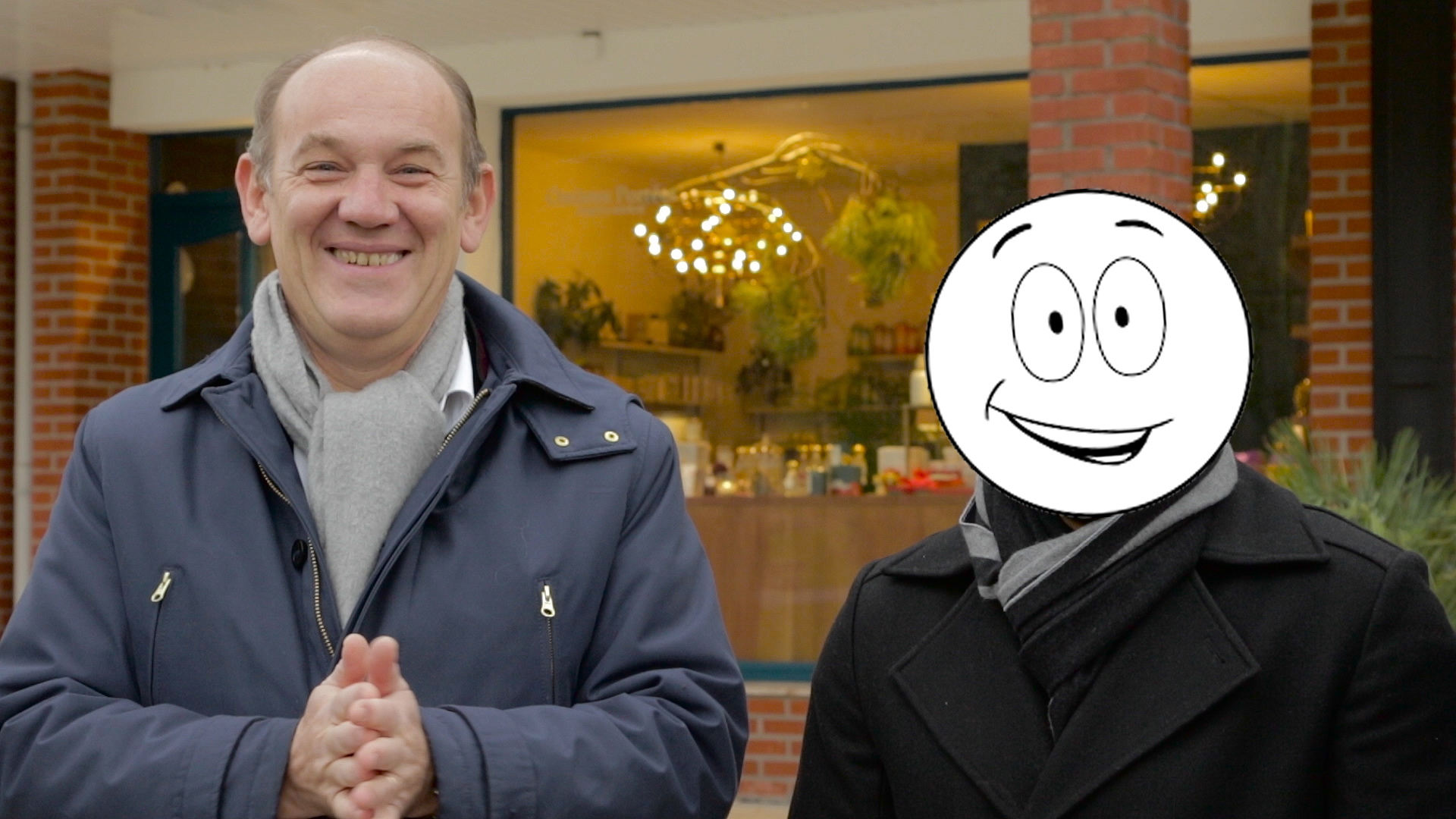 Kai and the Mayor of Le Touquet, Mr Daniel Fasquelle